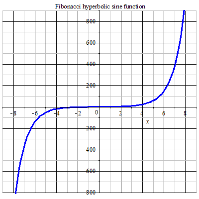 Fibonacci hyperbolic sine